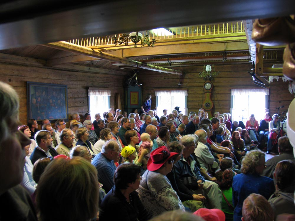 Pelimannitalo at Kaustinen Folk Music Festival in Kaustinen, Finland